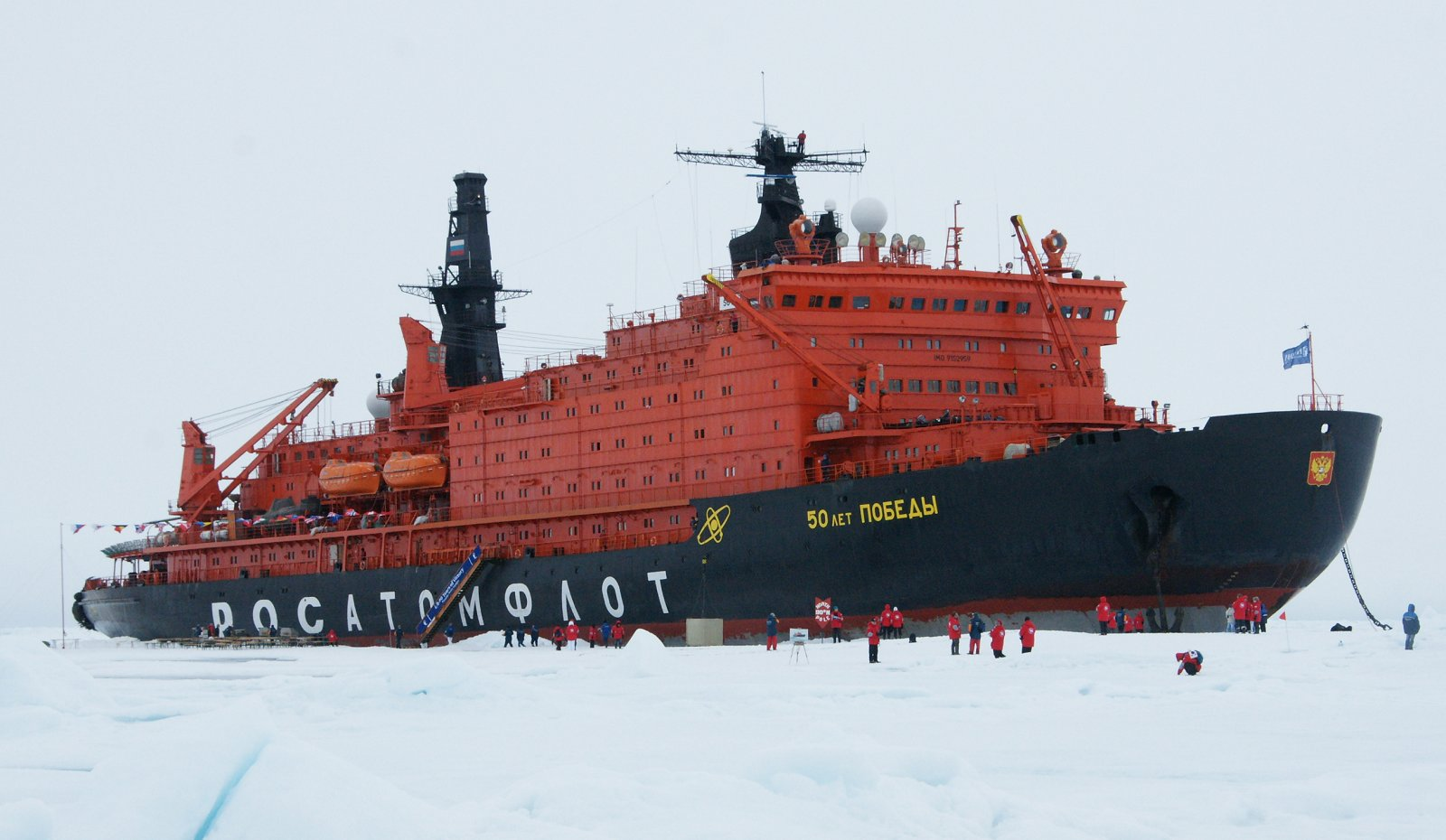 Nuclear i/b '50 let Pobedy' (Russia) on North 88°